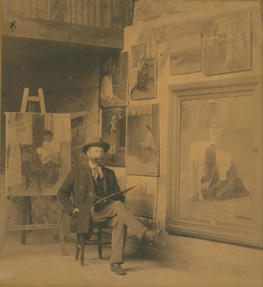 Clyde du Vernet Hunt, painter and sculptor, graduate of the Massachusetts Institute of Techonlogy, was the son of attorney and photography pioneer Leavitt Hunt and his wife Katherine L. (Jarvis) Hunt. Clyde du Vernet Hunt kept a studio in Paris, as well as a residence at Weathersfield Bow, Vermont, where his father Leavitt Hunt lived as well as his grandfather William Jarvis, a diplomat, farmer and businessman. Photograph courtesy of the Bennington Museum, Bennington, Vermont.